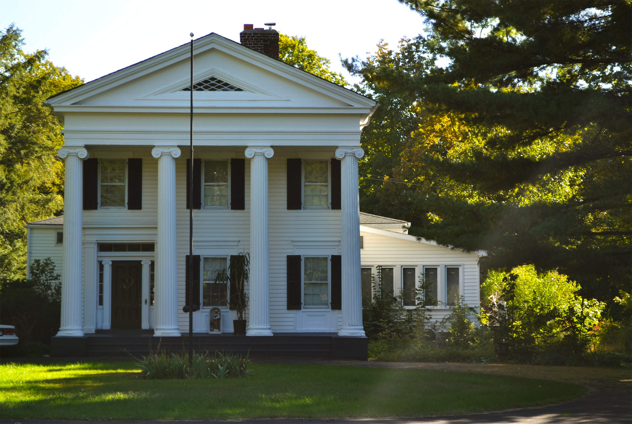 Elias Titus House Red Oaks Mill, NY. Northern (front) elevation